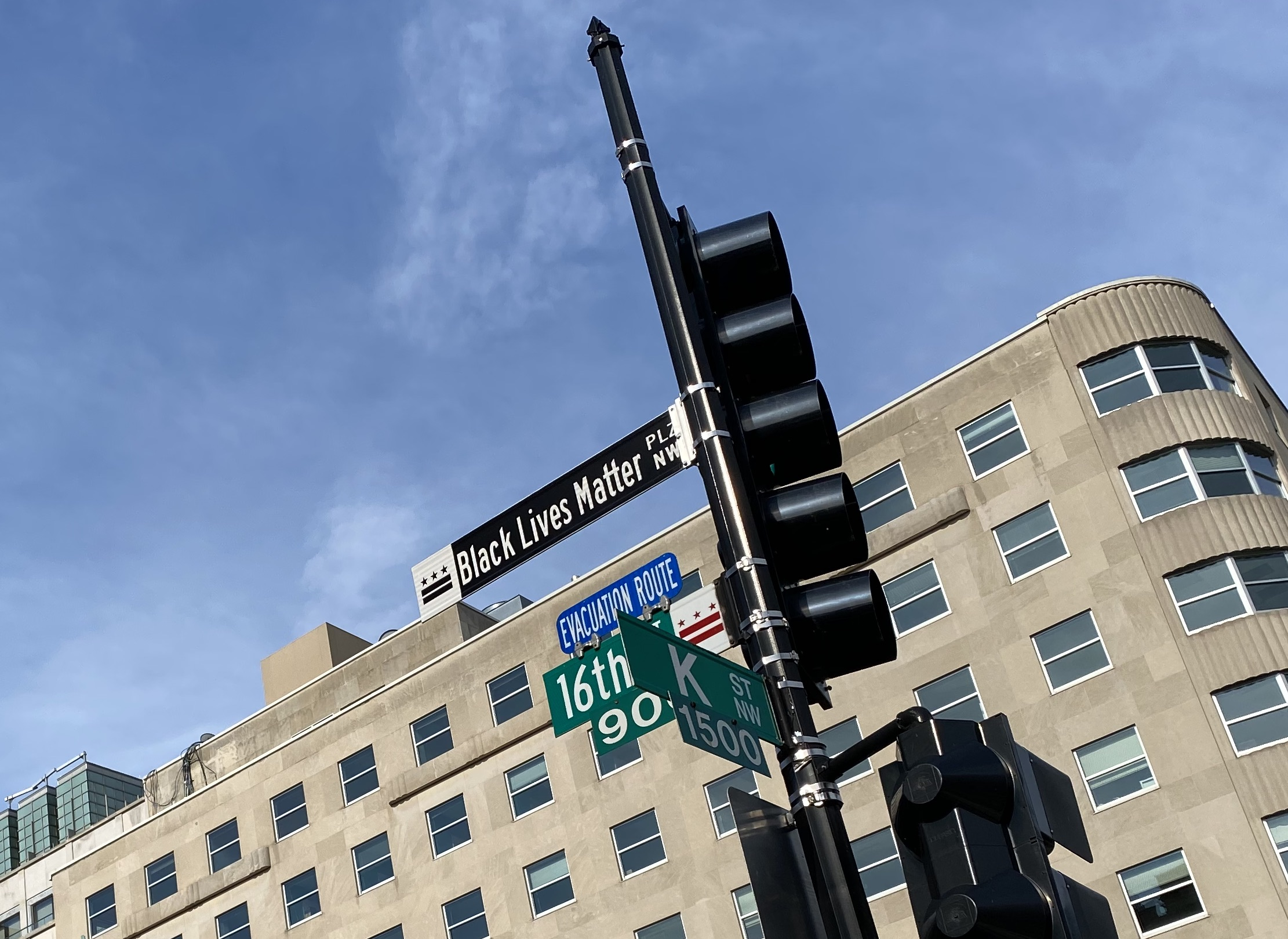 "Black Lives Matter Plaza" Street sign at the corner of 16th and K Streets NW in Washington, D.C.